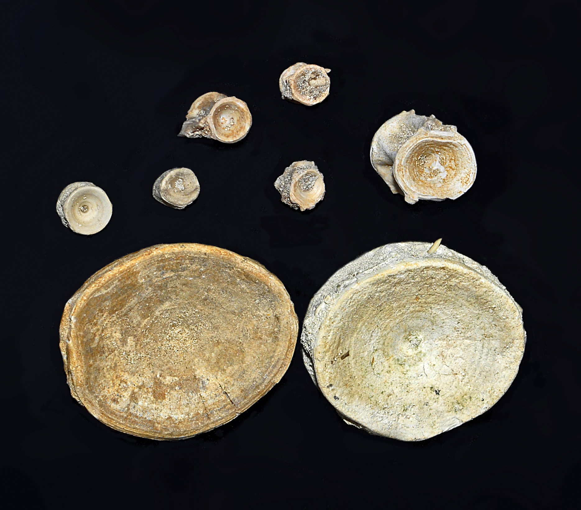 Fossil vertebra of Onchosaurus marocanus from Khouribga (Morocco.)